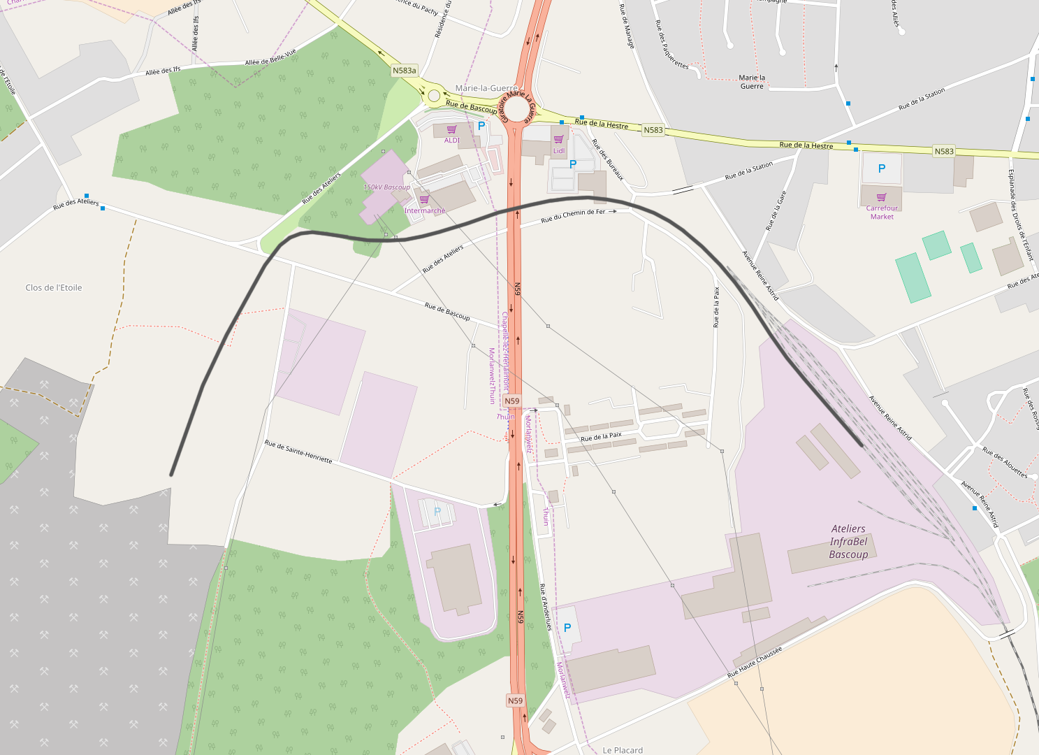 Belgian Railway Line 253, Bascoup - Fosse Sainte-Henriette